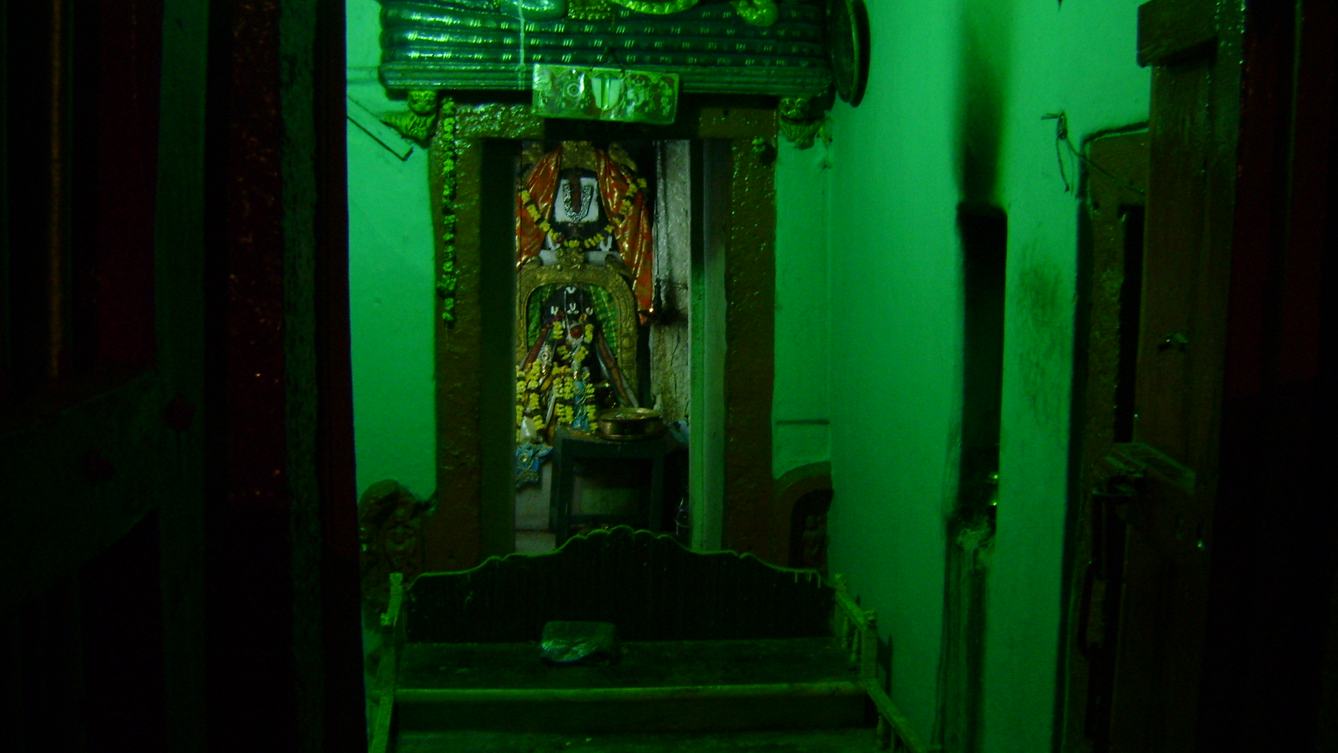 Chenna keshava temple keshavagiri hyderabad